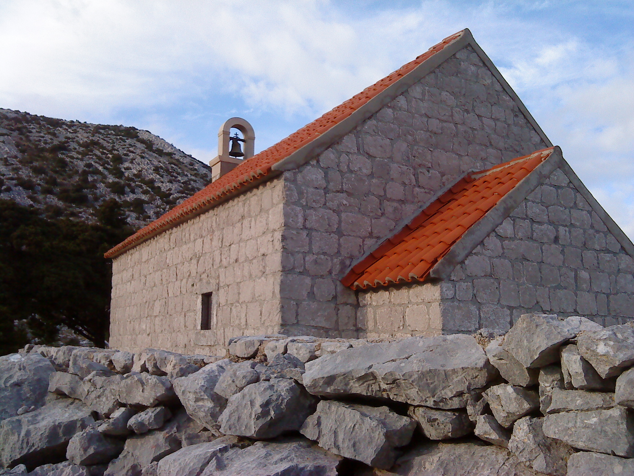 St. Nicholas church above Oskorušno